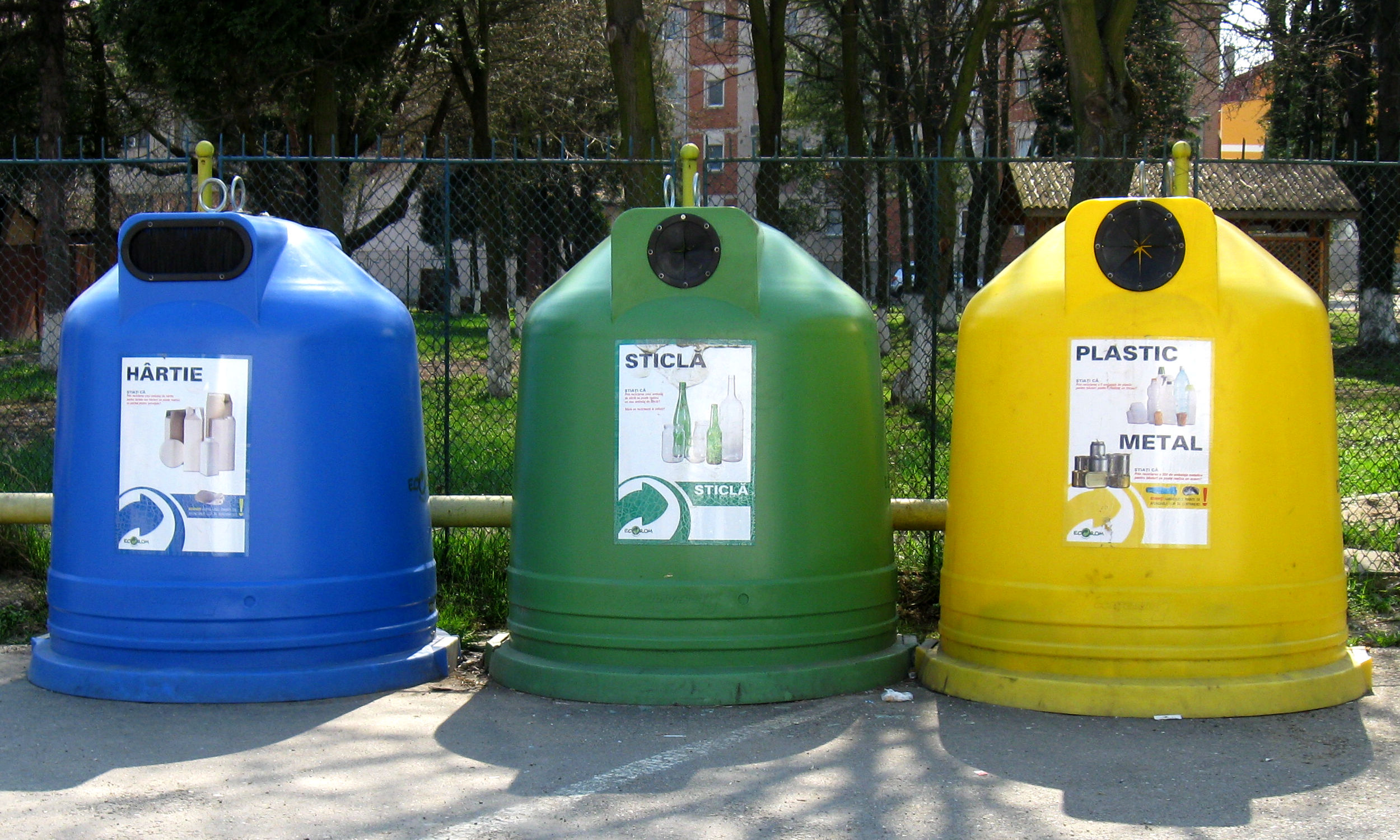 Recycling containers at Deva, Romania